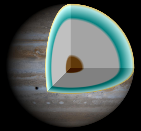 This cut-away illustrates a model of Jupiter's interior. In the upper layers the atmosphere transitions to a liquid state above a thick layer of metallic hydrogen. In the center there may be a solid core of heavier elements.